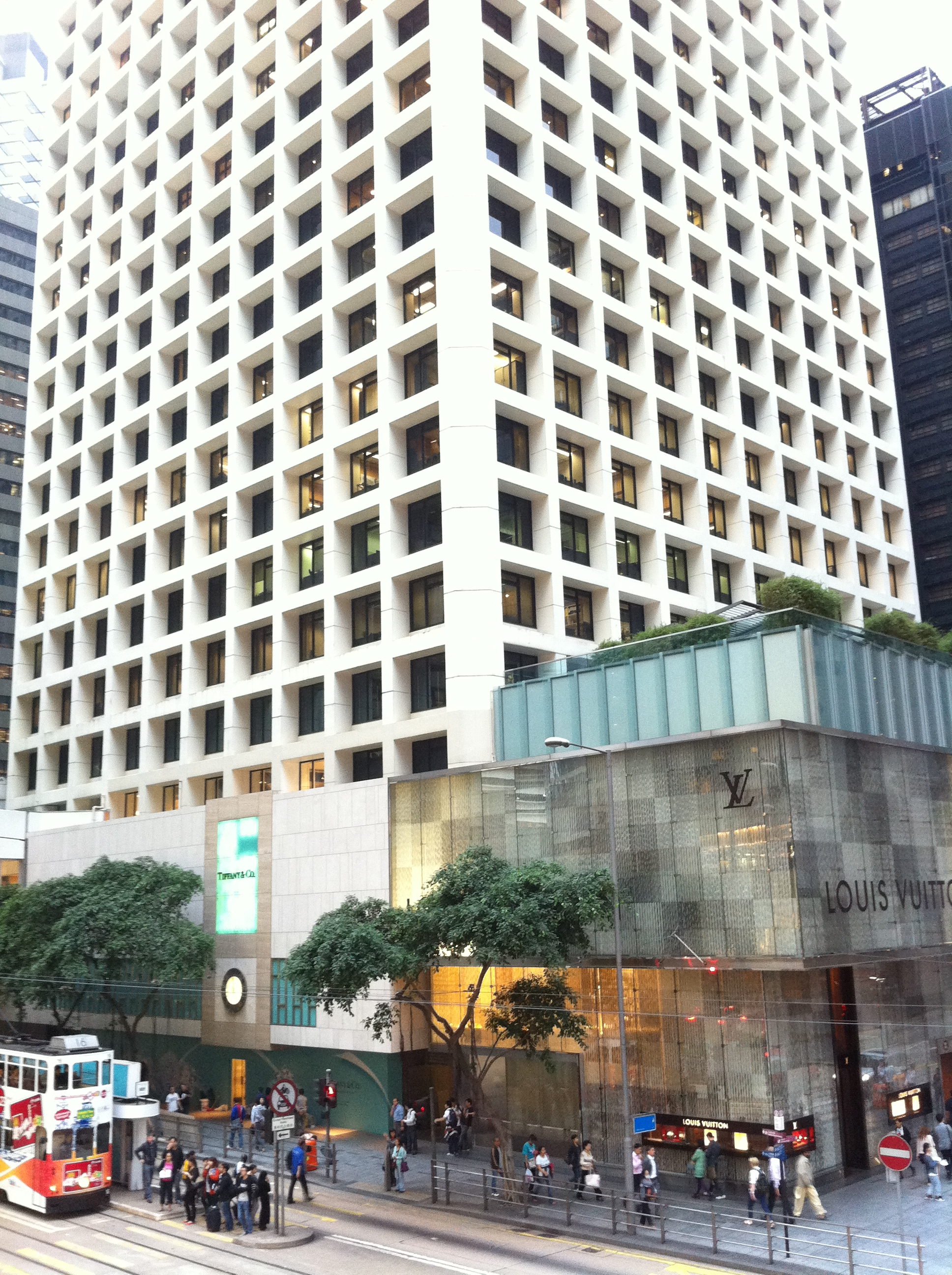 Gloucester Tower, Landmark, Central, Hong Kong